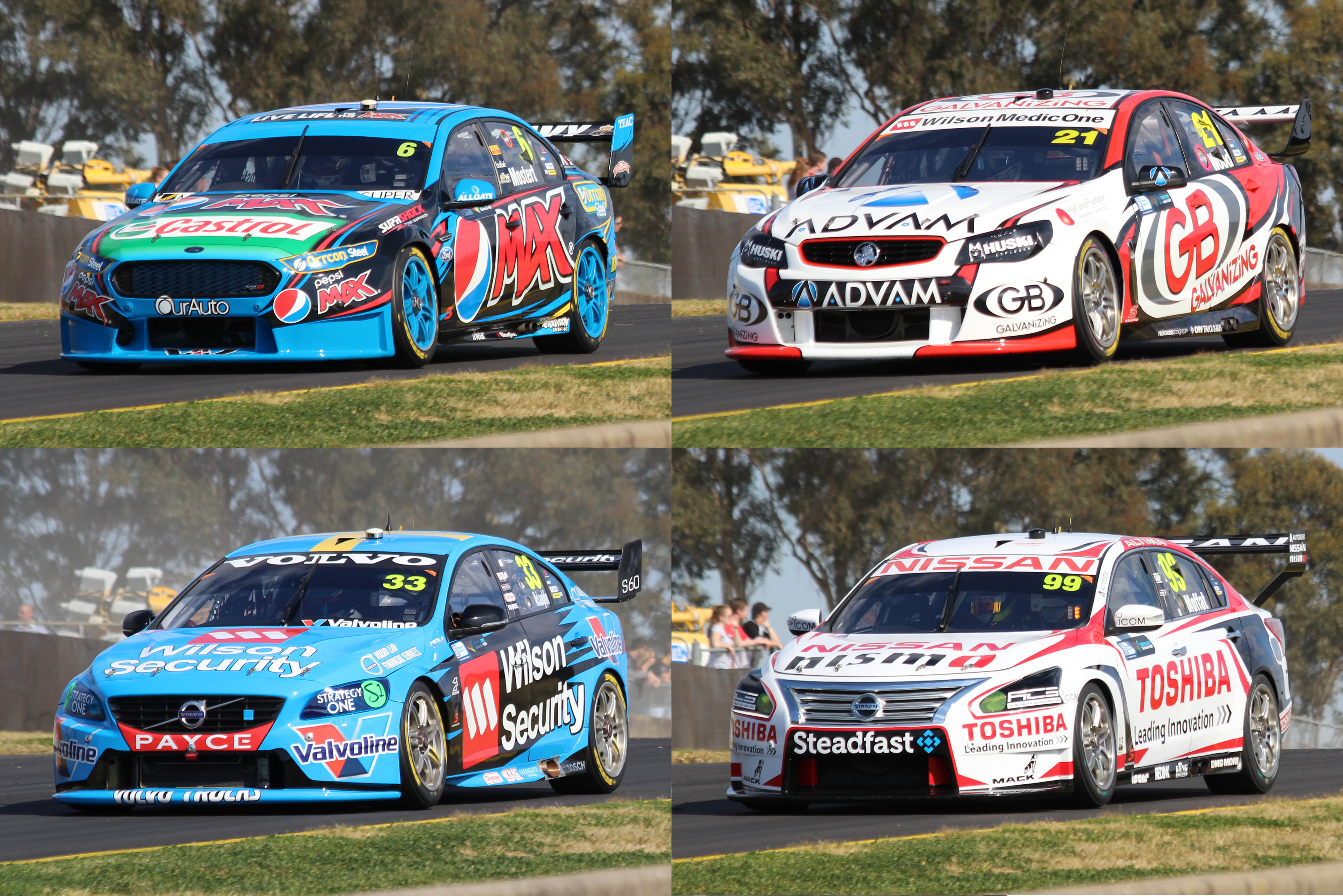 Ford FG X Falcon, Holden VF Commodore, Nissan Altima and Volvo S60 V8 Supercars; the four manufacturers competing in 2016.